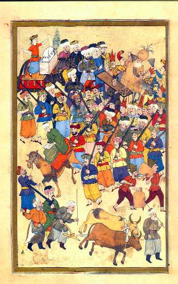 The Surname-I Hümayun (Imperial Festival Book) were albums that commemorated celebrations in the Ottoman Empire in pictorial and textual detail. Here, the pashas from around the Ottoman Empire gather to give the Sultan gifts.